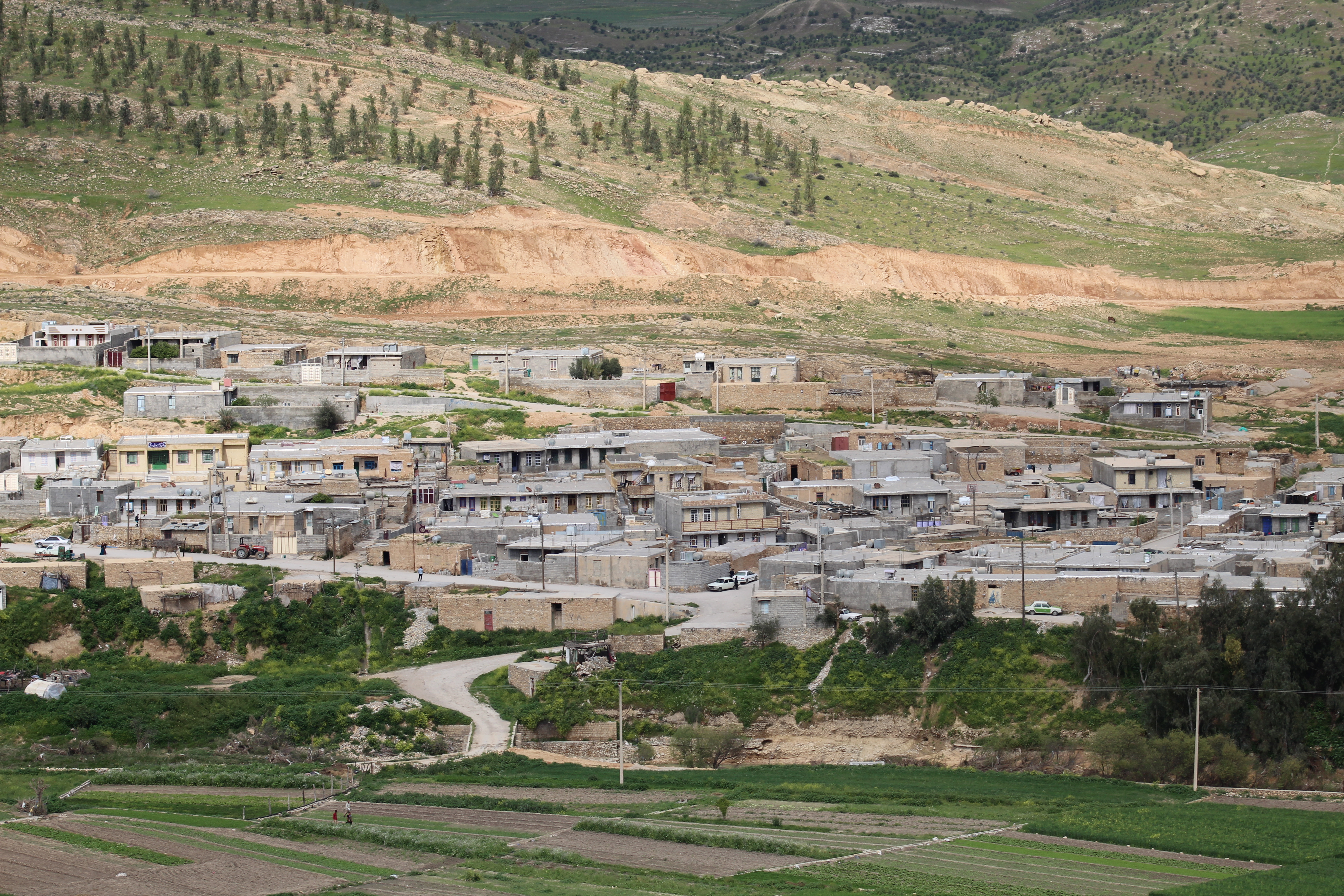 Chahbardi village